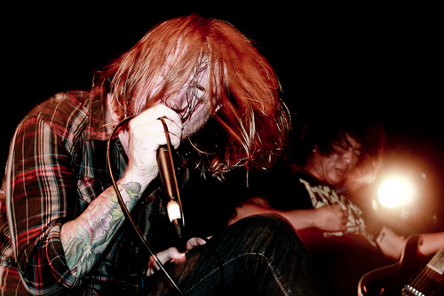 Haste the Day at the Glasshouse at the Solid State Tour.